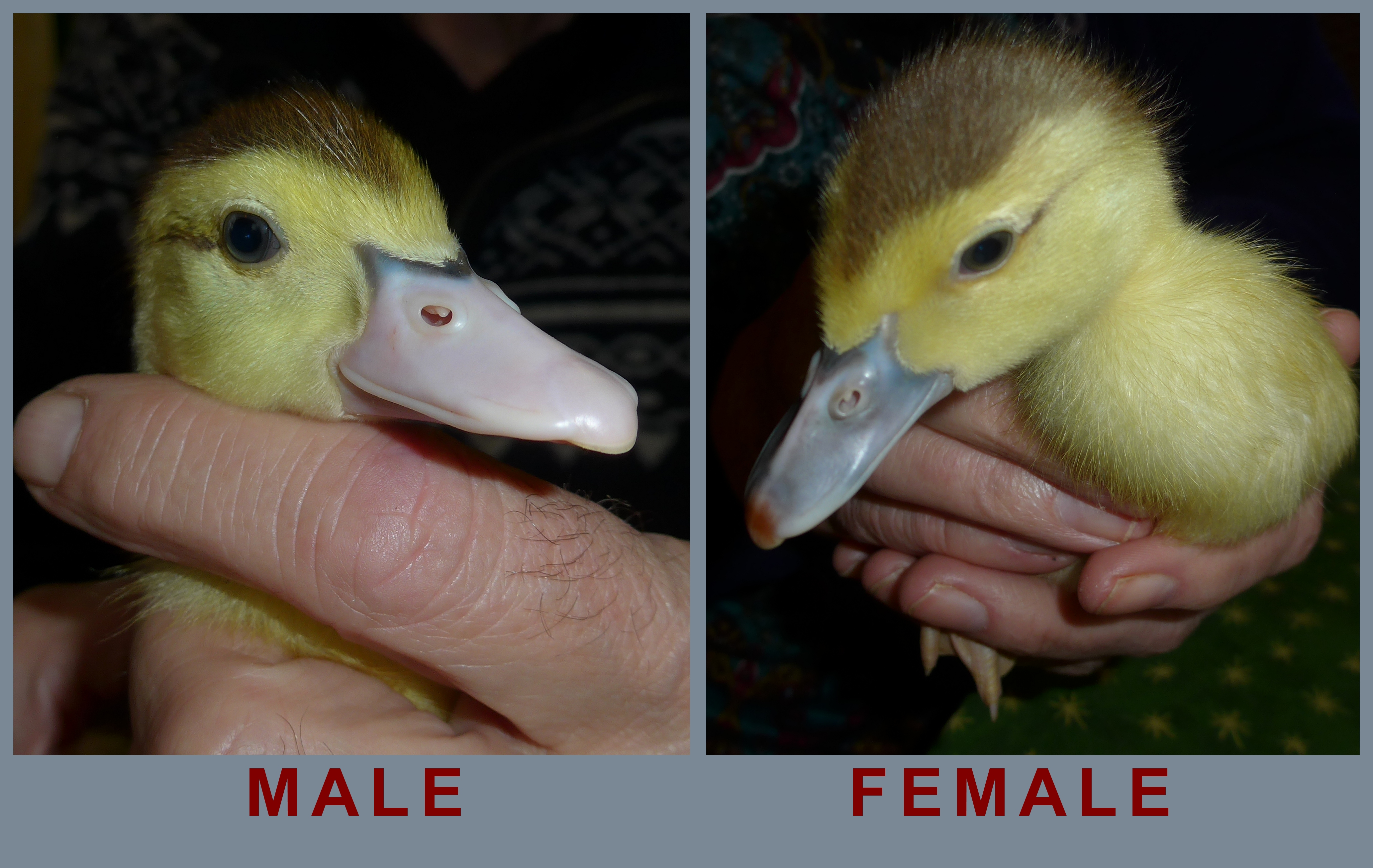 muscovy ducks Male Female (15 days)